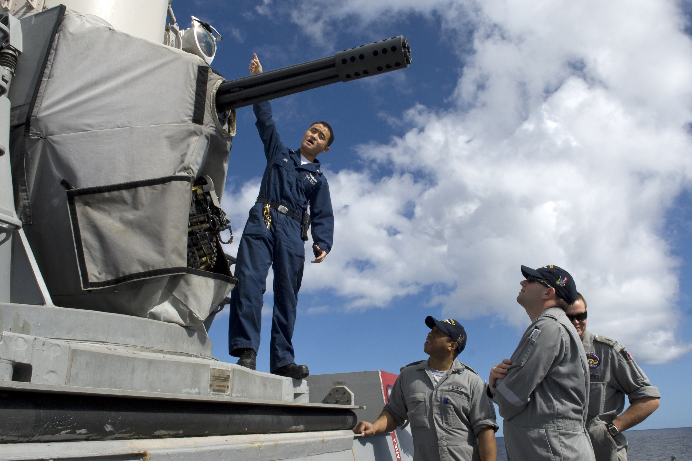 CORAL SEA (July 23, 2009) Fire Controlman 2nd Class Chaung Pha of Sacramento, Calif. explains functions of guided-missile destroyer USS McCampbell's (DDG 85) Close-In Weapons System to Royal Australian Navy sailors of guided-missile frigate HMAS Newcastle (FFG 06) as part of a personnel cross-deck exercise series. McCampbell is underway with the Essex Strike Group in support of the bilateral training exercise Talisman Saber 2009, a biennial exercise between U.S. and Australian forces designed to enhance interoperability. (U.S. Navy photo by Mass Communication Specialist 2nd Class Byron C. Linder/Released)